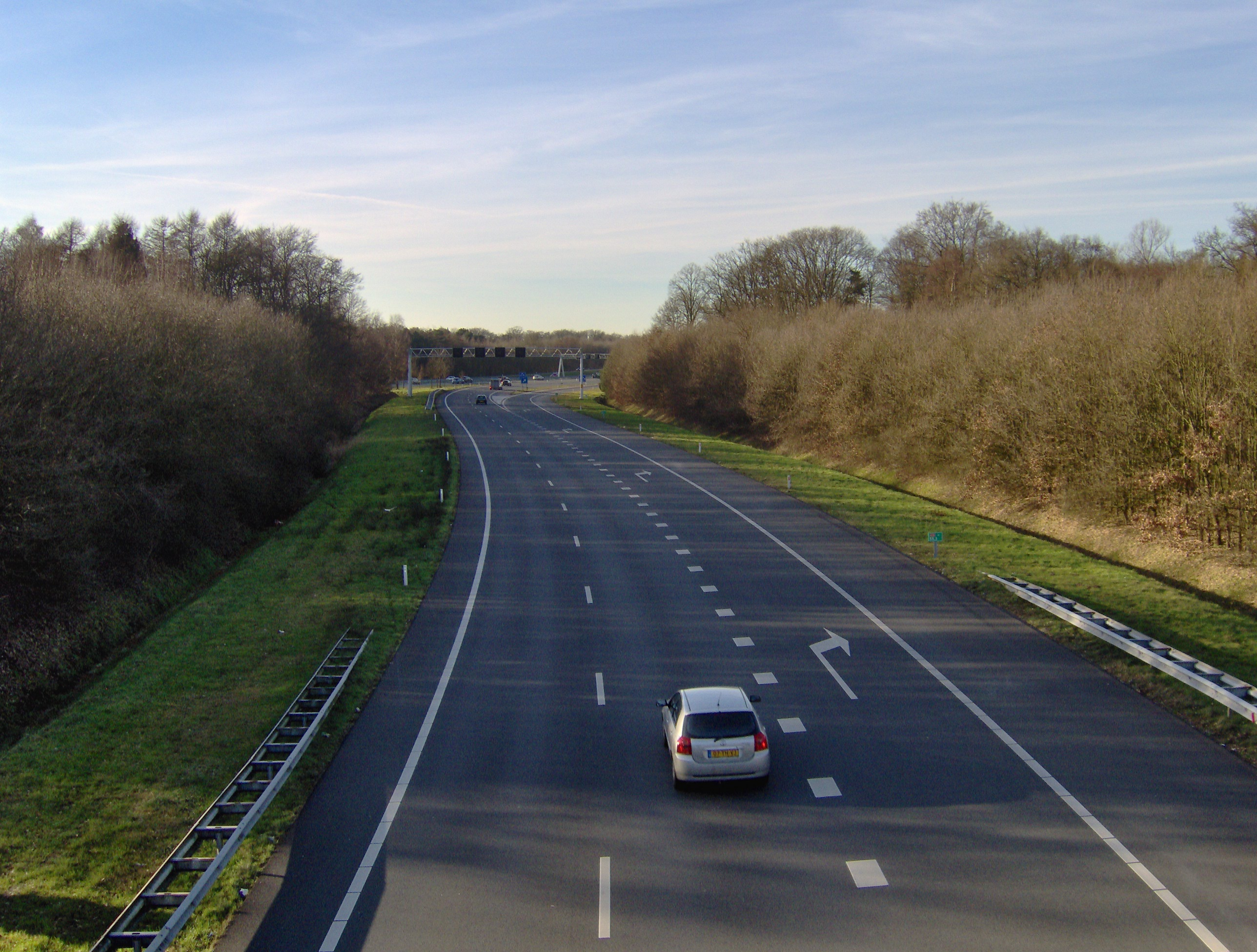 One lane of the Dutch highway A35 near Borne-West